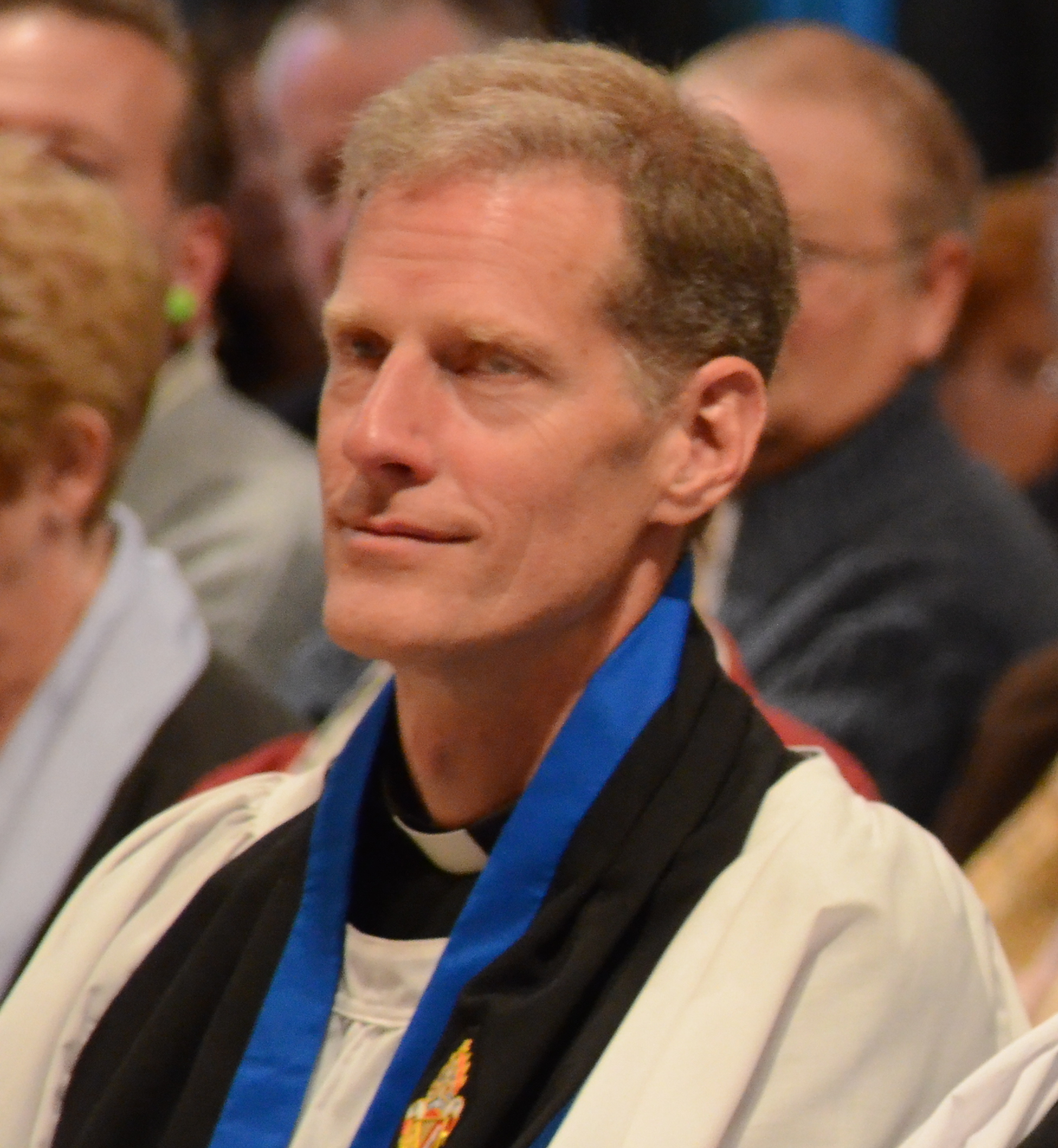 Robin King (Archdeacon of Stansted), John Perumbalath (Archdeacon of Barking), Mina Smallman (Archdeacon of Southend)